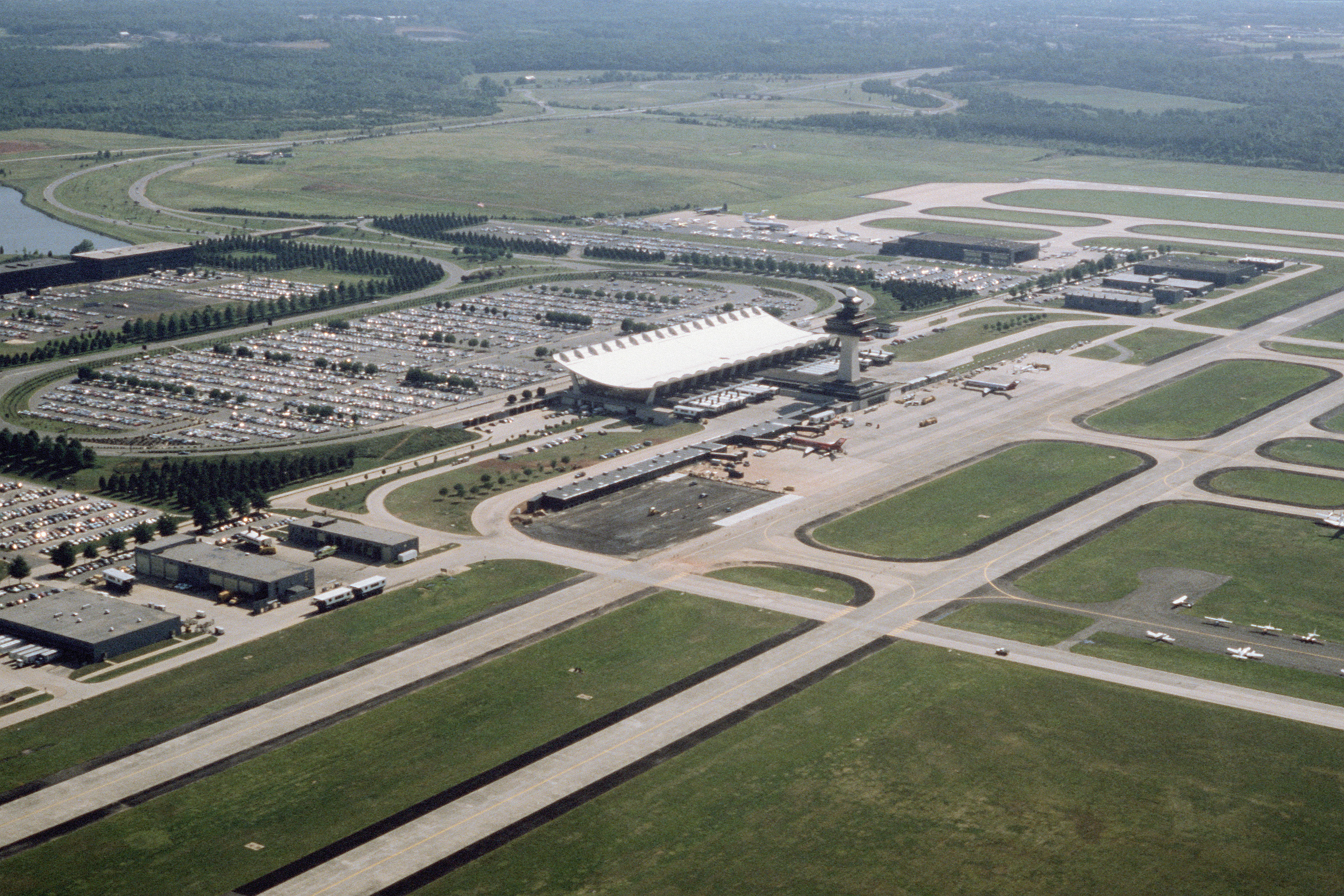 Aerial view of Washington Dulles International Airport (IAD)